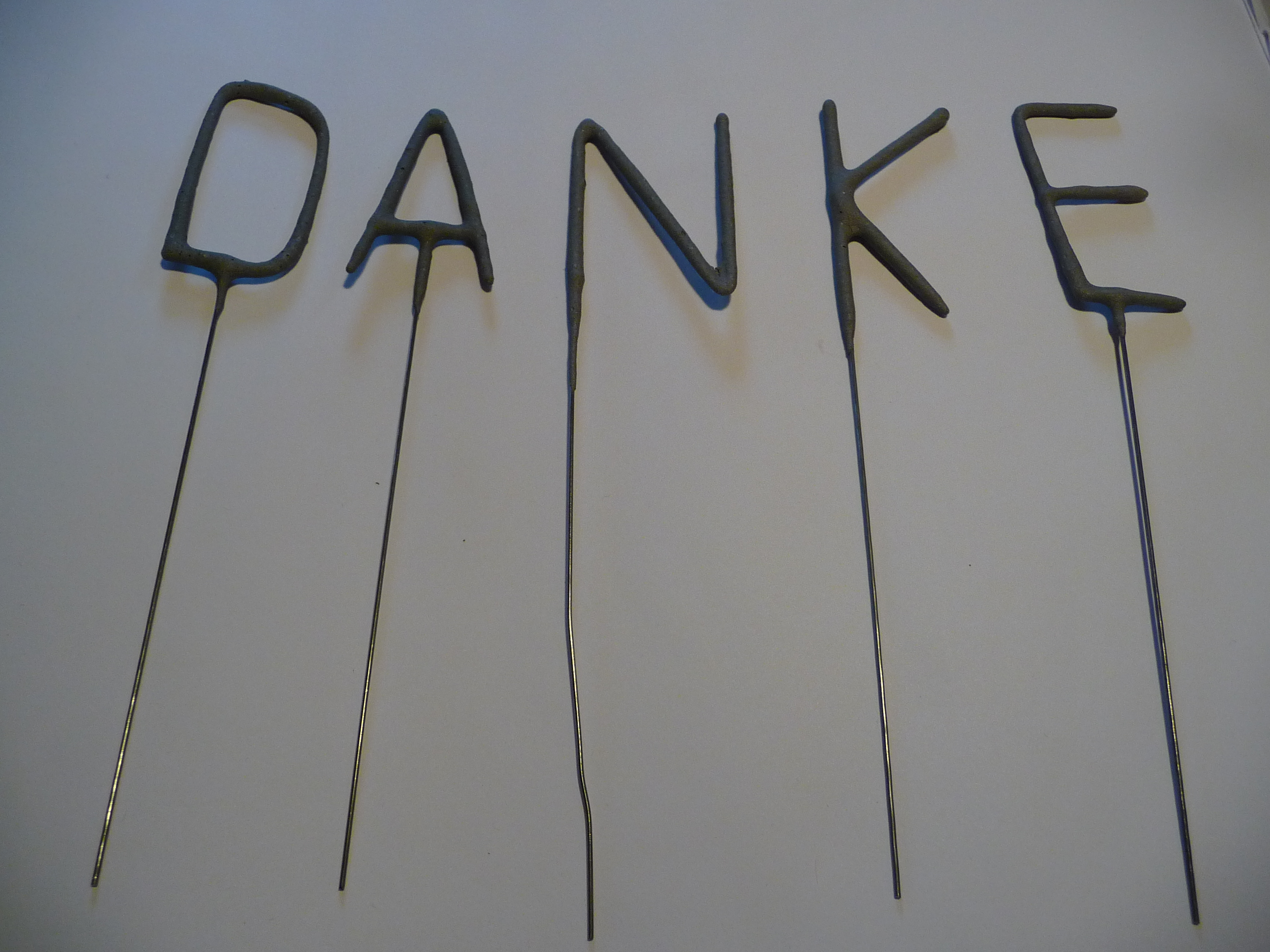 sparklers